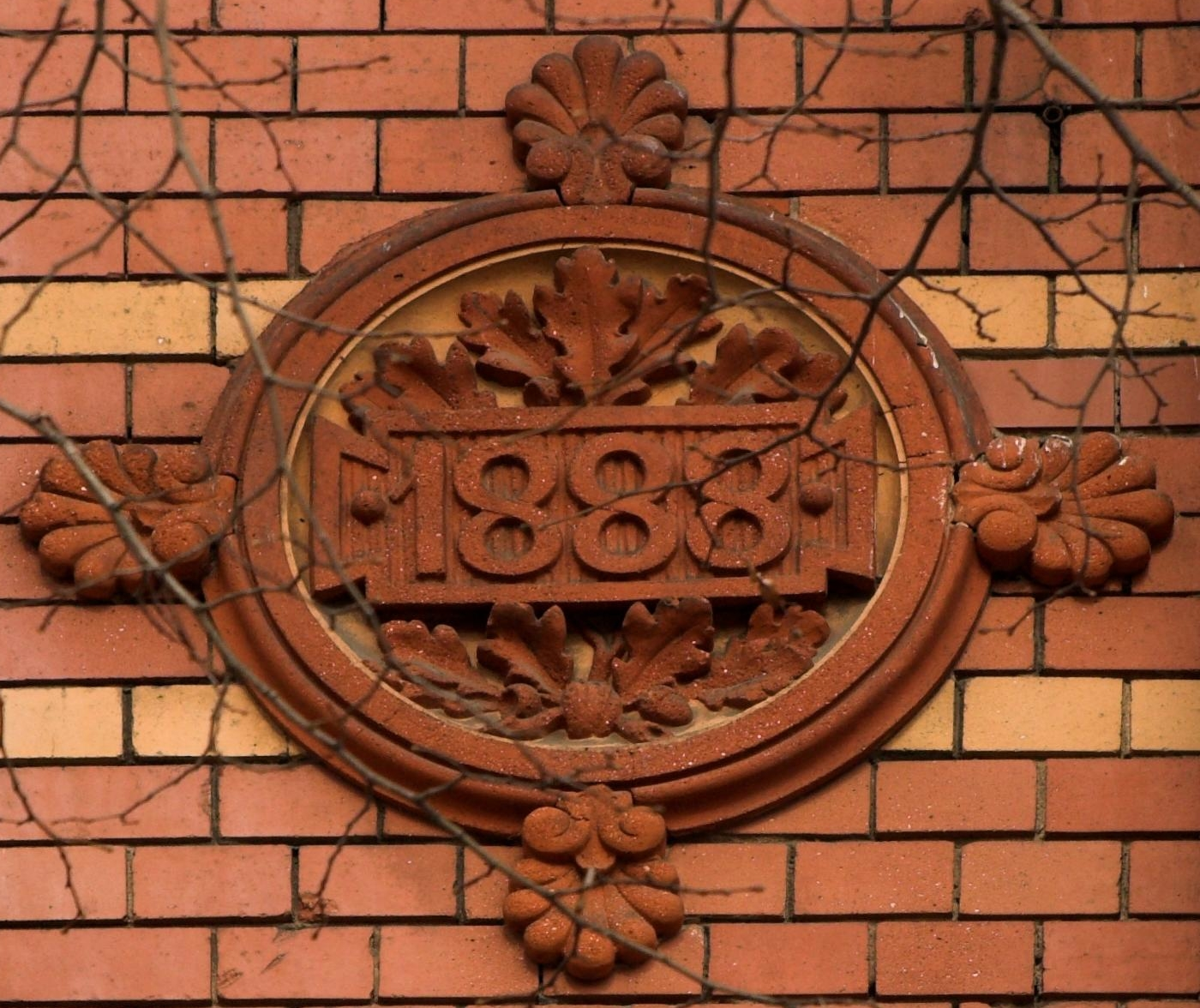 Berlin, market hall VII, terracotta medaillon "1888"